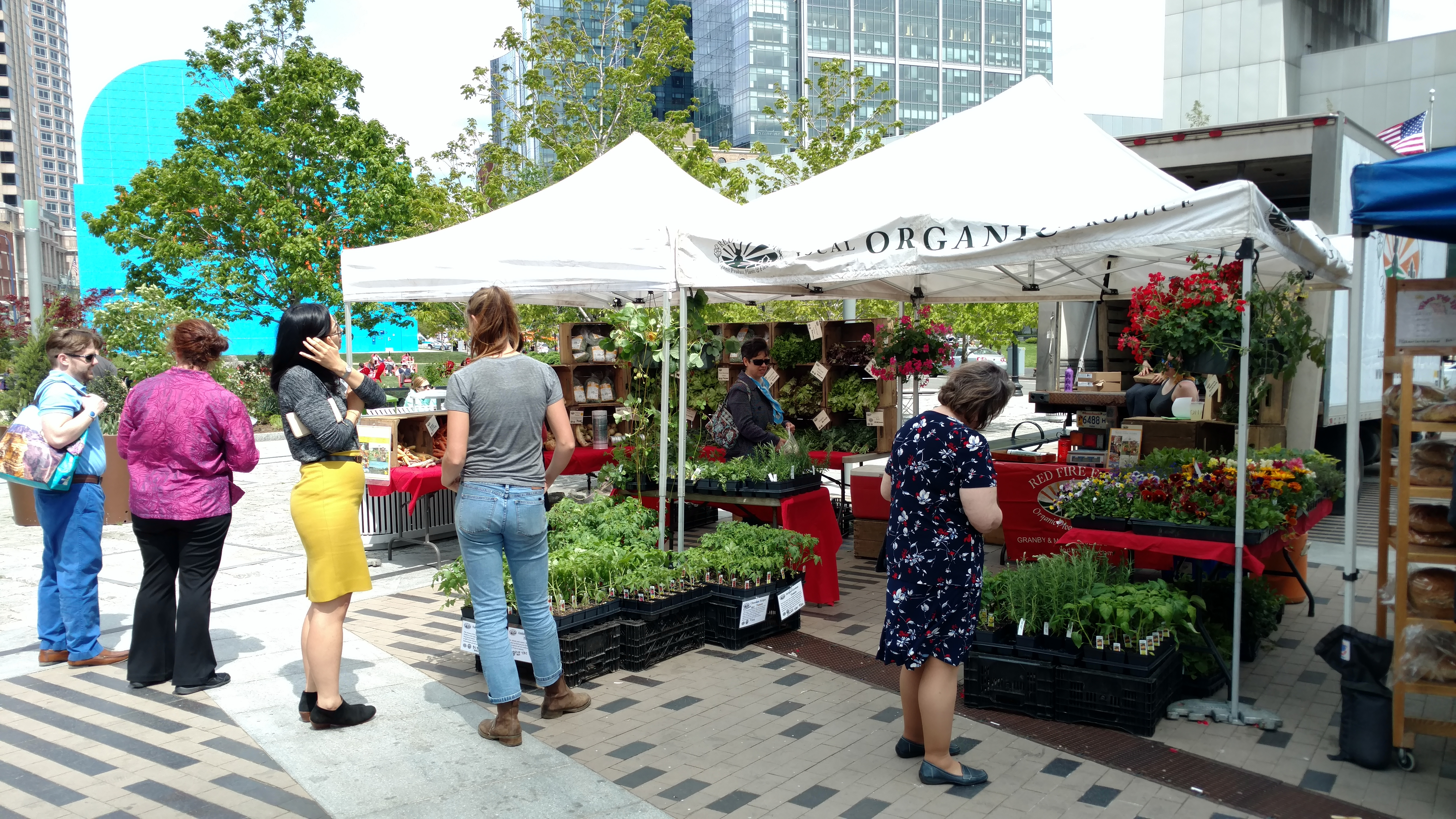 Farmers market in Dewey Square on the Rose Kennedy Greenway in Boston